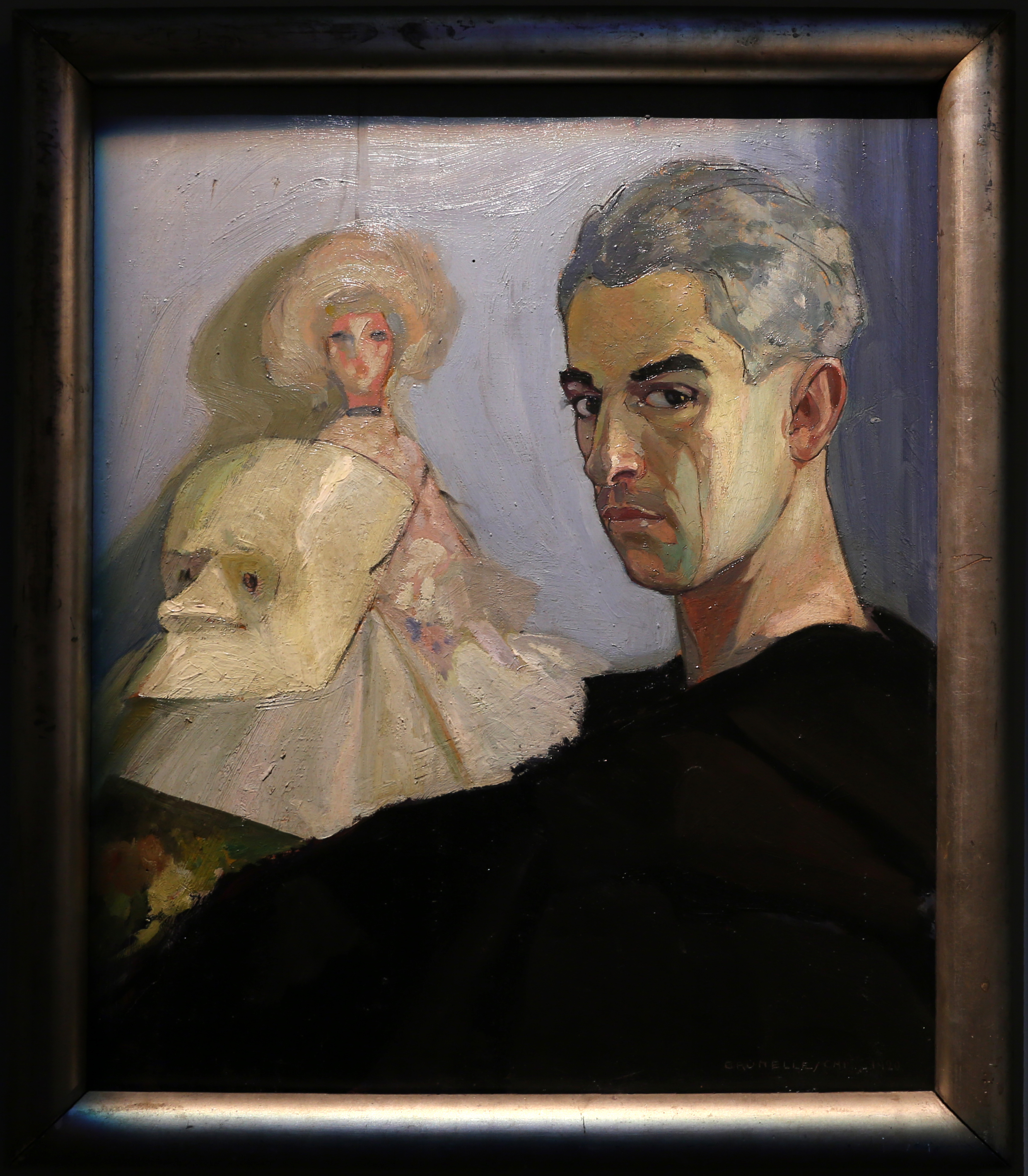 Umberto Brunelleschi - Courtesy of Lullo-Pampoulides, London